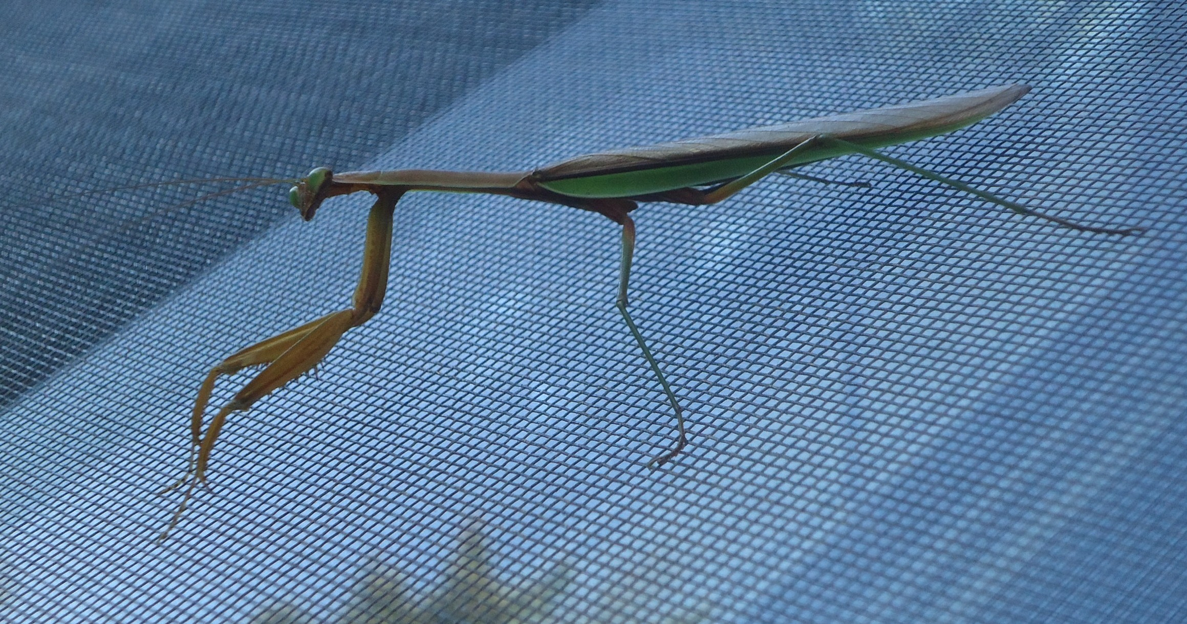 Praying mantis, I believe, on a window in New Jersey. It was several inches in length.